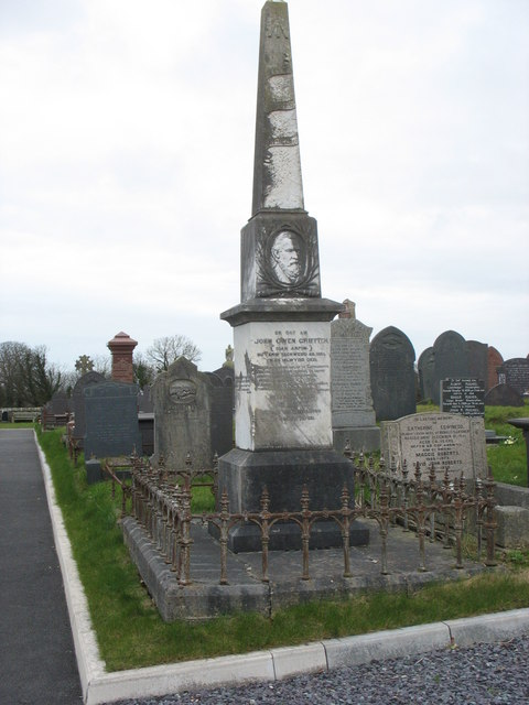 Raised by public subscription - the tomb of Ioan Arfon Ioan Arfon was the non-de-plume of the Welsh poet, critic and eisteddfodic adjudicator, John Owen Griffith. He was also something of a geologist.